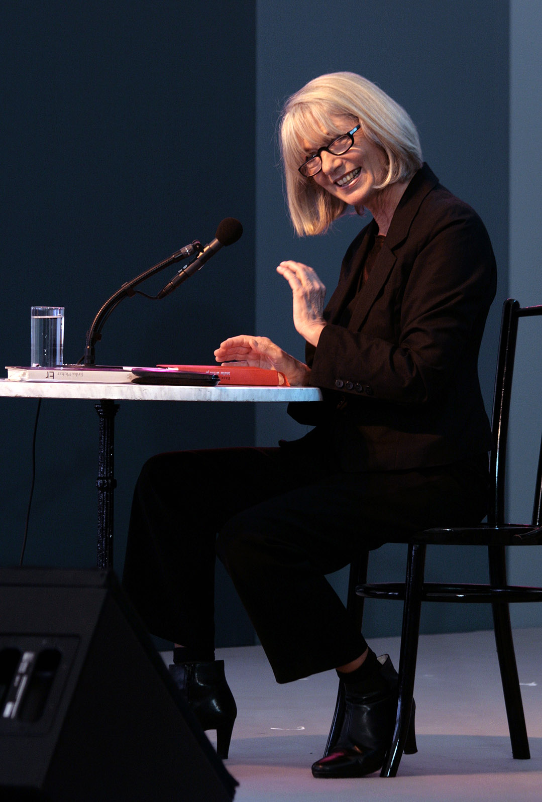 Writer, actress and singer Erika Pluhar (literary evening "Rund um die Burg" 2009 near the Burgtheater in Vienna).